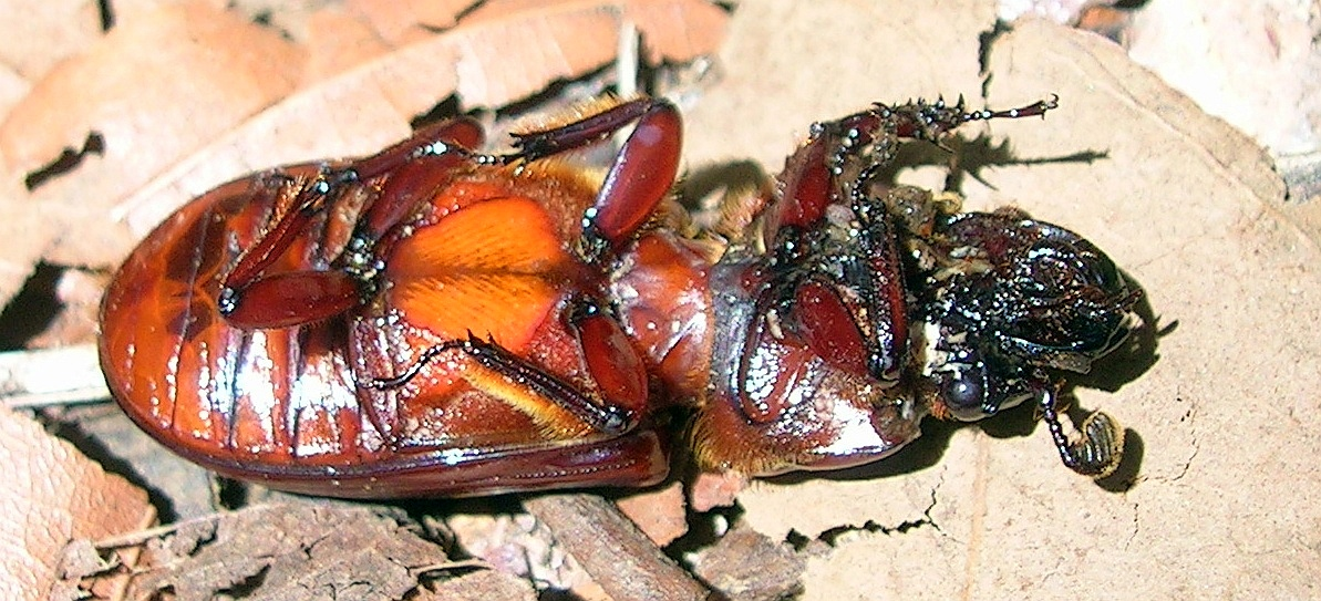 Passalidae beetle from the Western Ghats